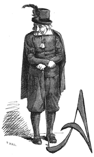 Danish actor Adolph Rosenkilde (1816-1882).